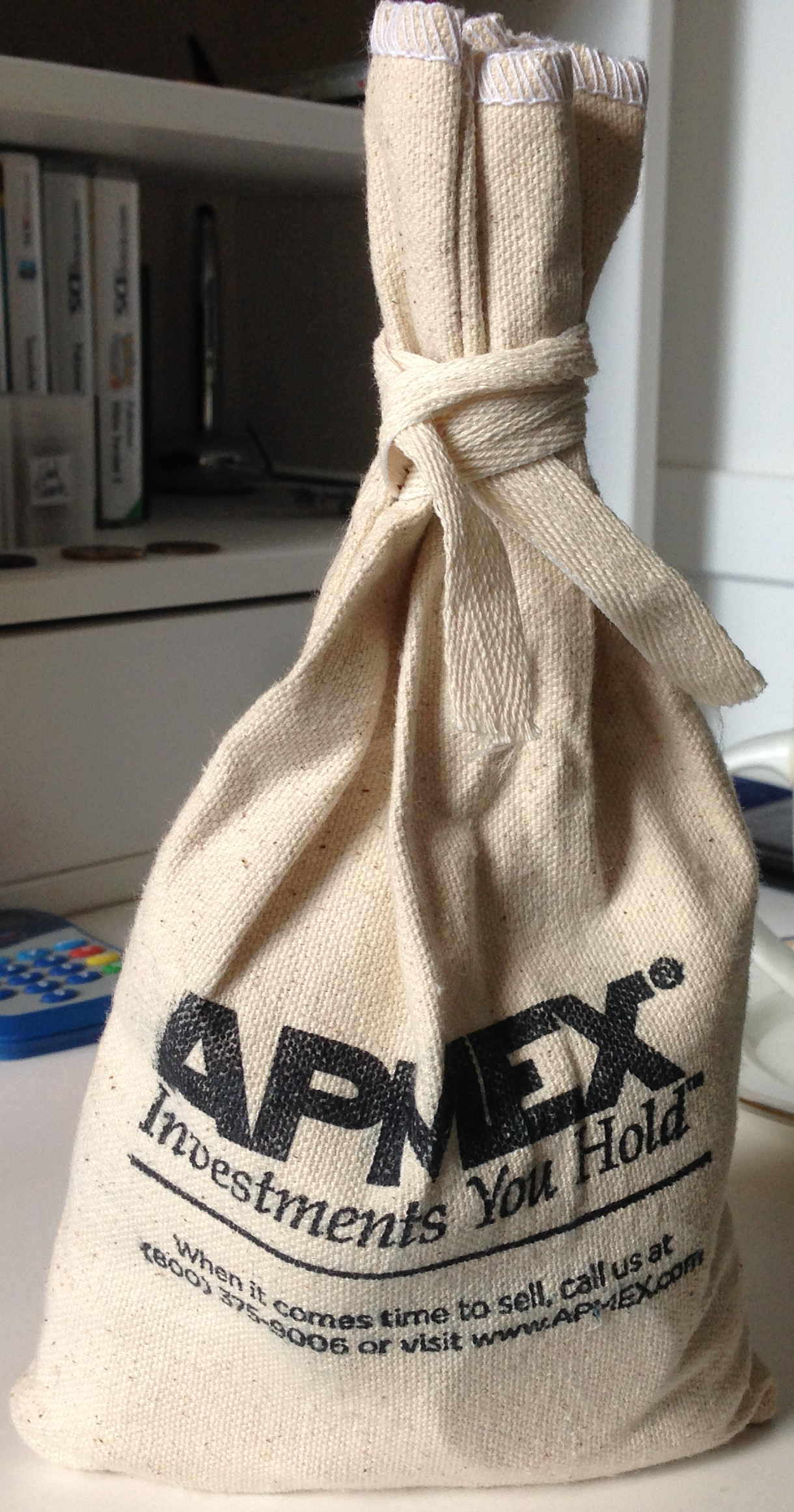 An example of a money bag, this one being from APMEX. It contains 100 dollars in Eisenhower dollar coins.